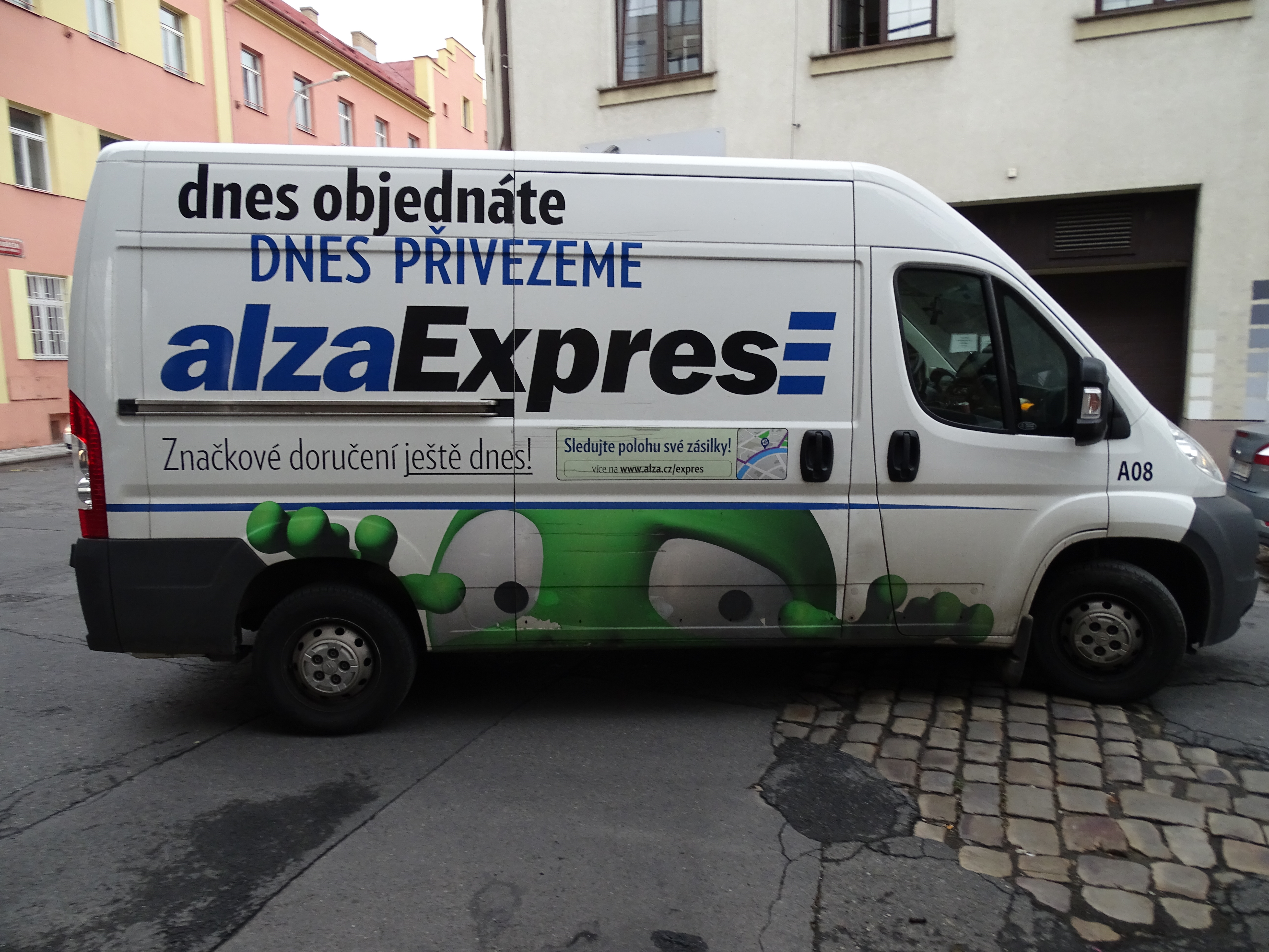 Prague-Karlín, Czech Republic. Prvního pluku and Pobřežní street, a van of Alza.cz.